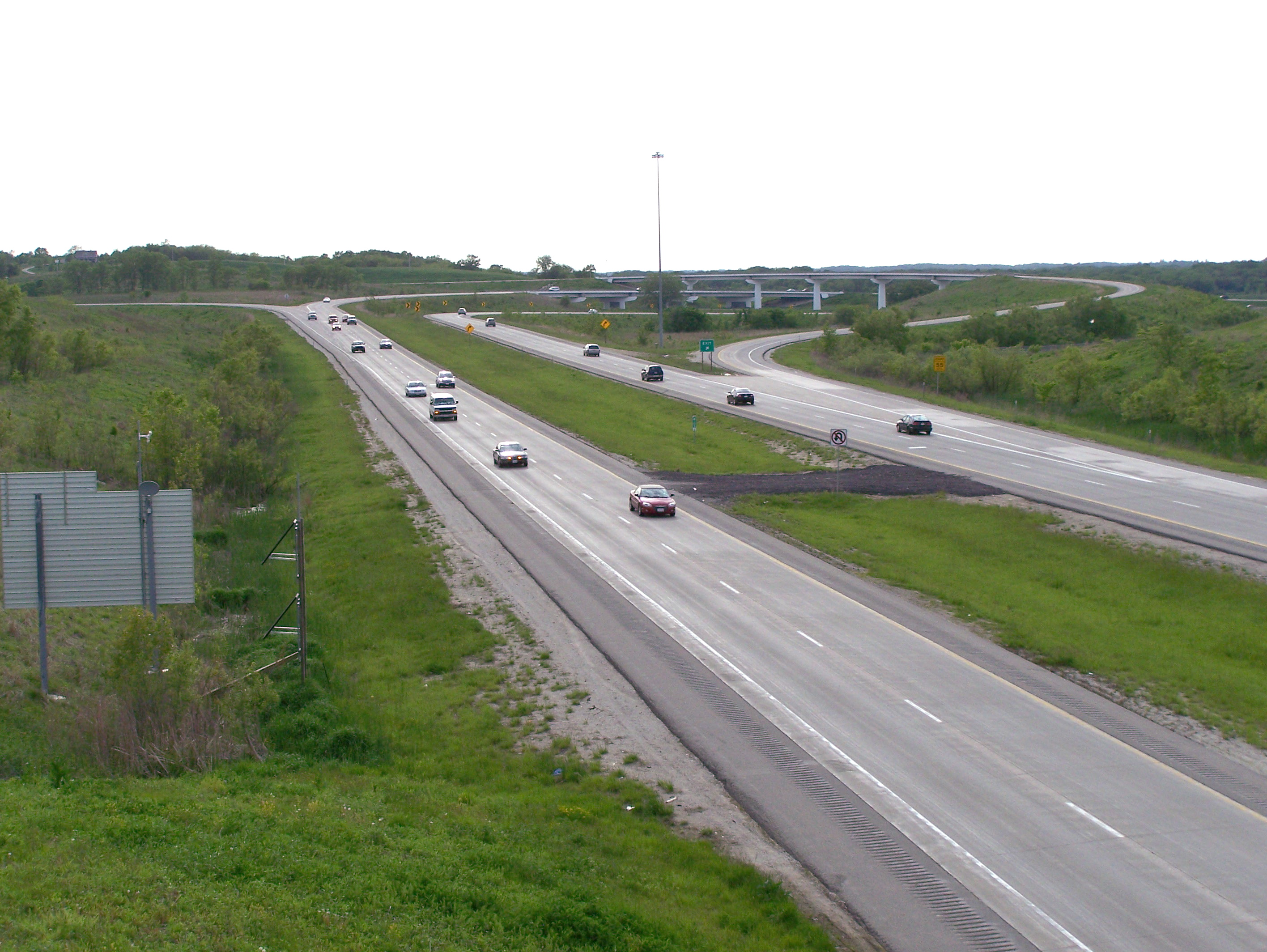 The northern end of Iowa Highway 5 taken from the 42nd Street bridge in West Des Moines, Iowa.